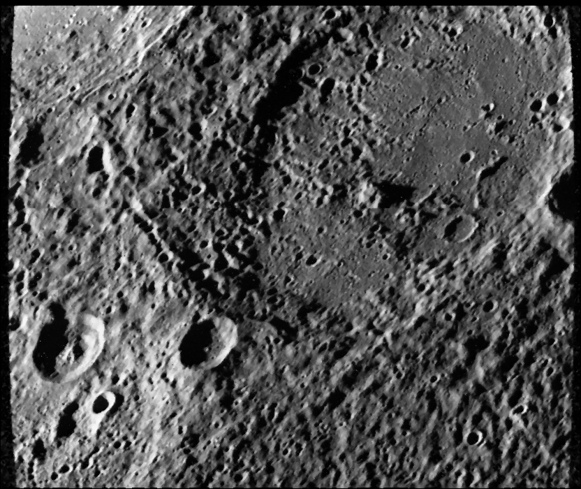 Moliere crater on Mercury. Mariner 10 image 0027456.